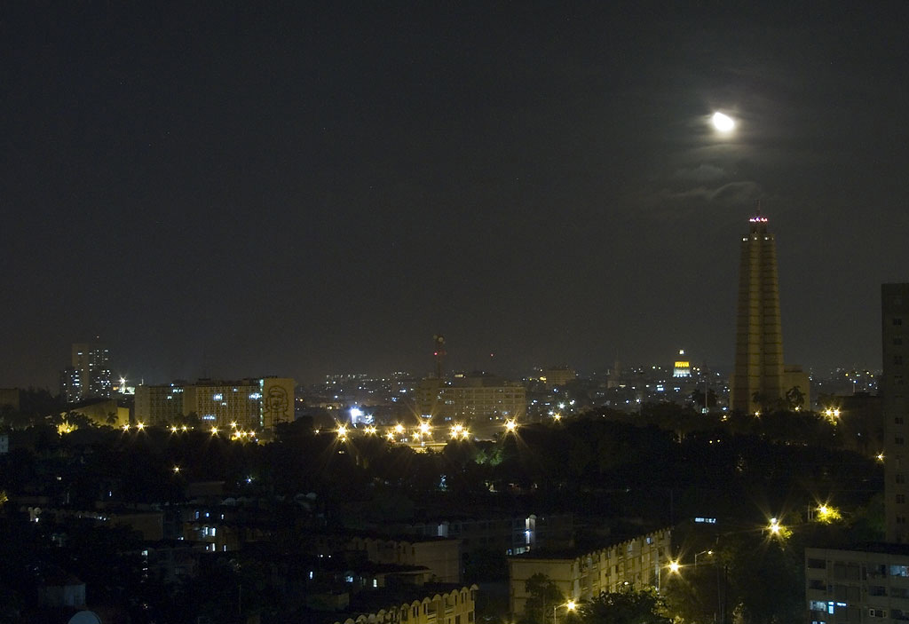 Havana at night.